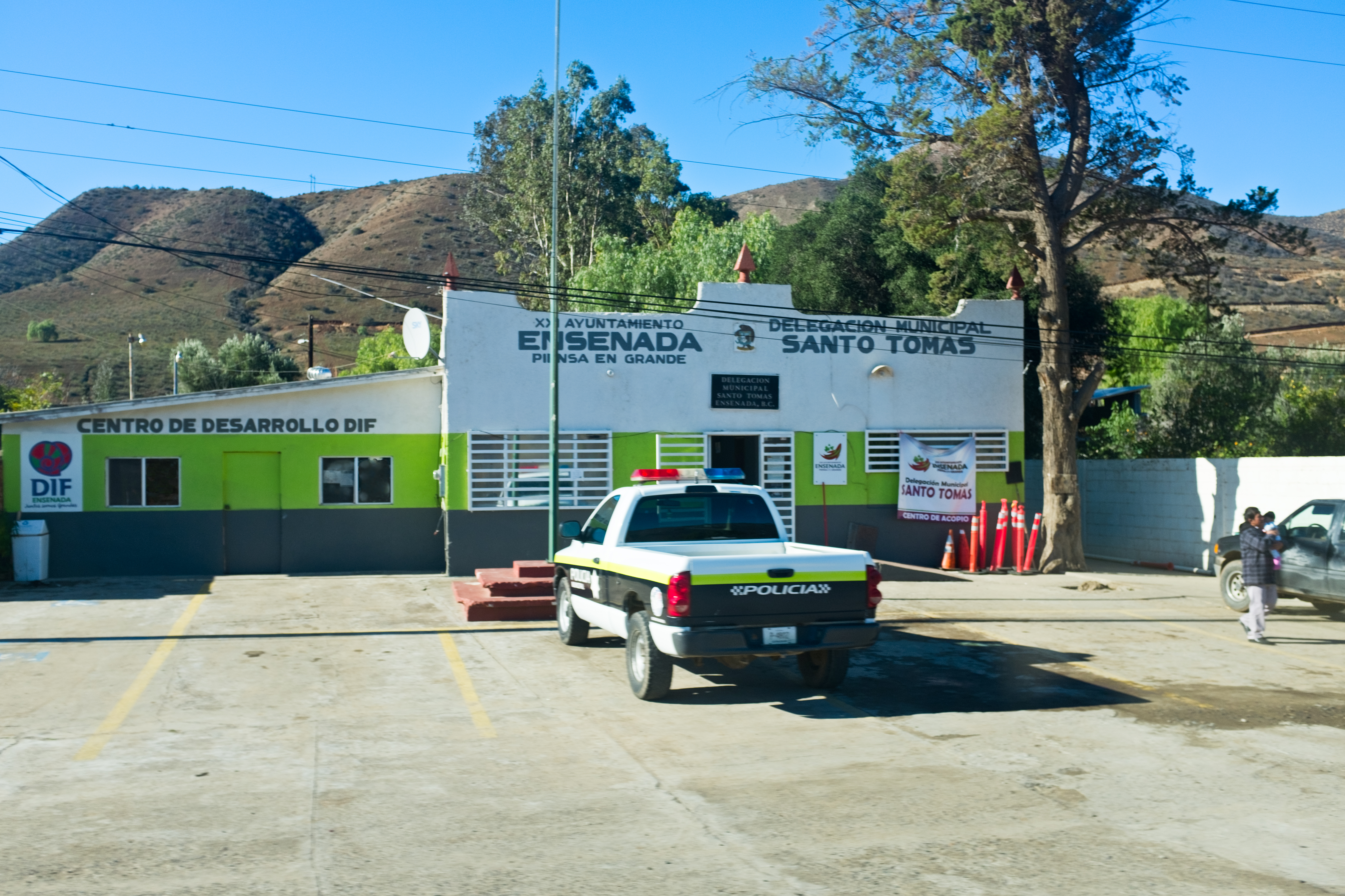 Town Hall of Santo Tomas, Baja California, Mexico